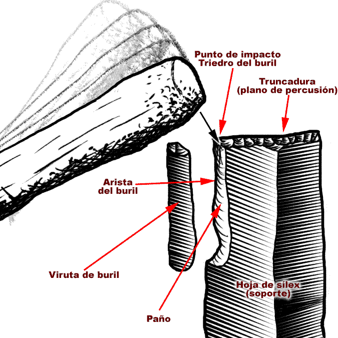 Technique of Burin blow (sample burin on a truncation).